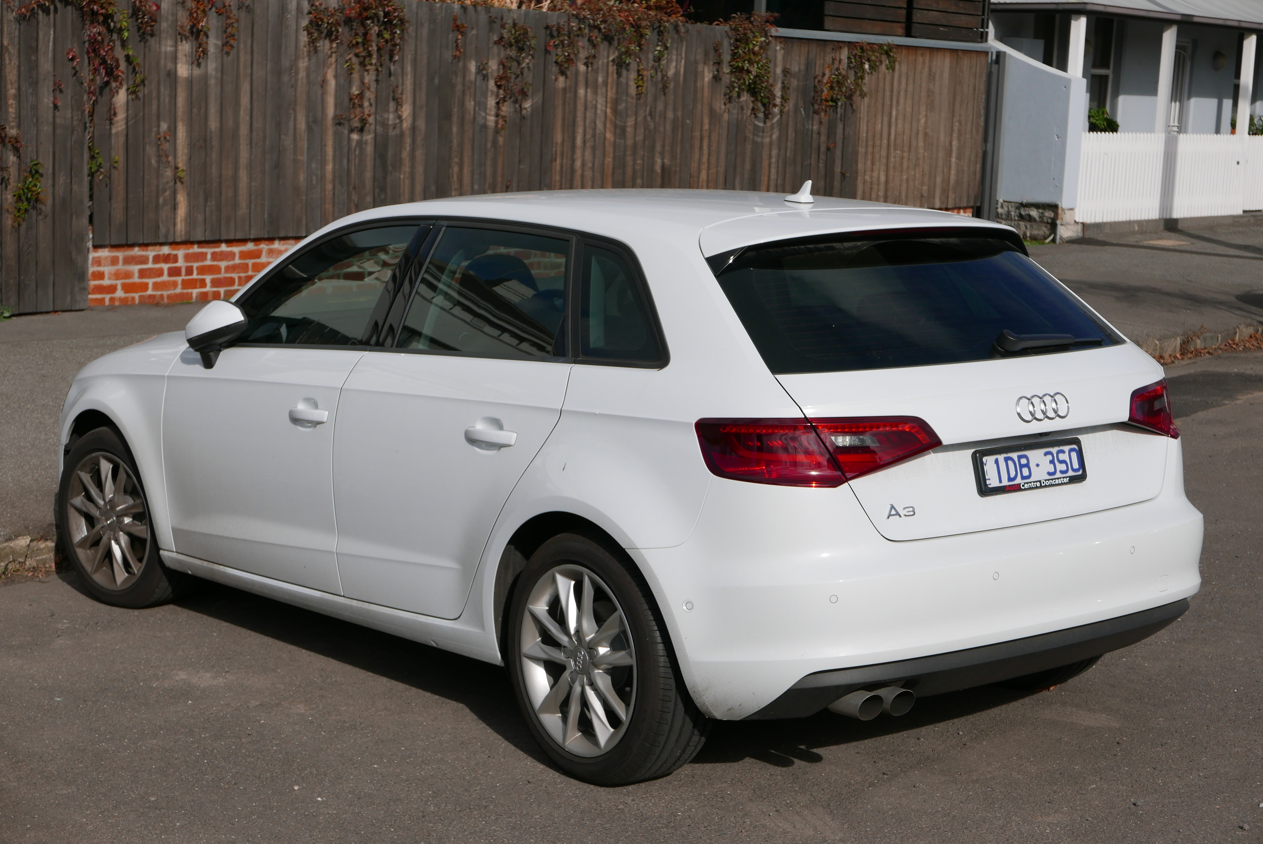 2015 Audi A3 (8V MY15) Attraction 5-door hatchback. Photographed in Fitzroy North, Victoria, Australia. Vehicle registration enquiry results Jurisdiction Victoria Registration 1DB3SO Chassis code WAUZZZ8V1FA088199 Engine code CZC228184 Compliance date 2015-02 Year of manufacture 2015